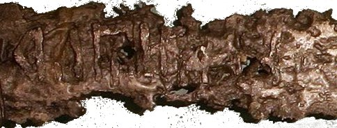 Remnants of an inscription in silver inlay on the blade of the 8th-century Sæbø sword (Bergen Museum, 2004 photograph).